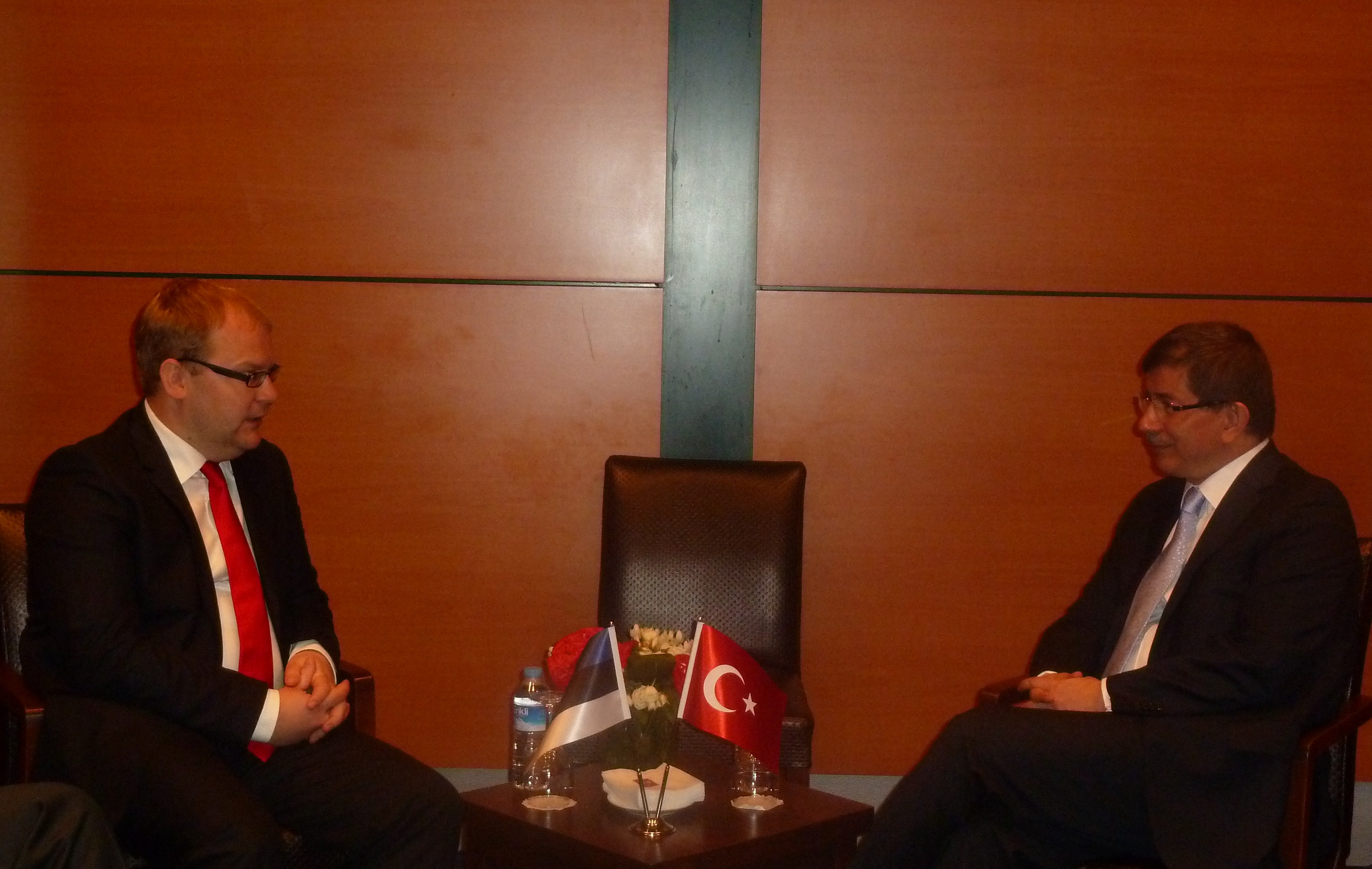 Estonian FM Urmas Paet and Turkish FM Ahmet Davutoglu in Istanbul